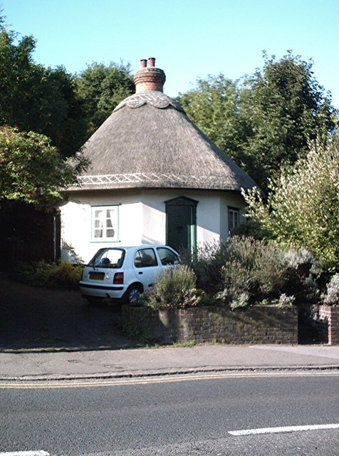 The Dutch Cottage, Rayleigh